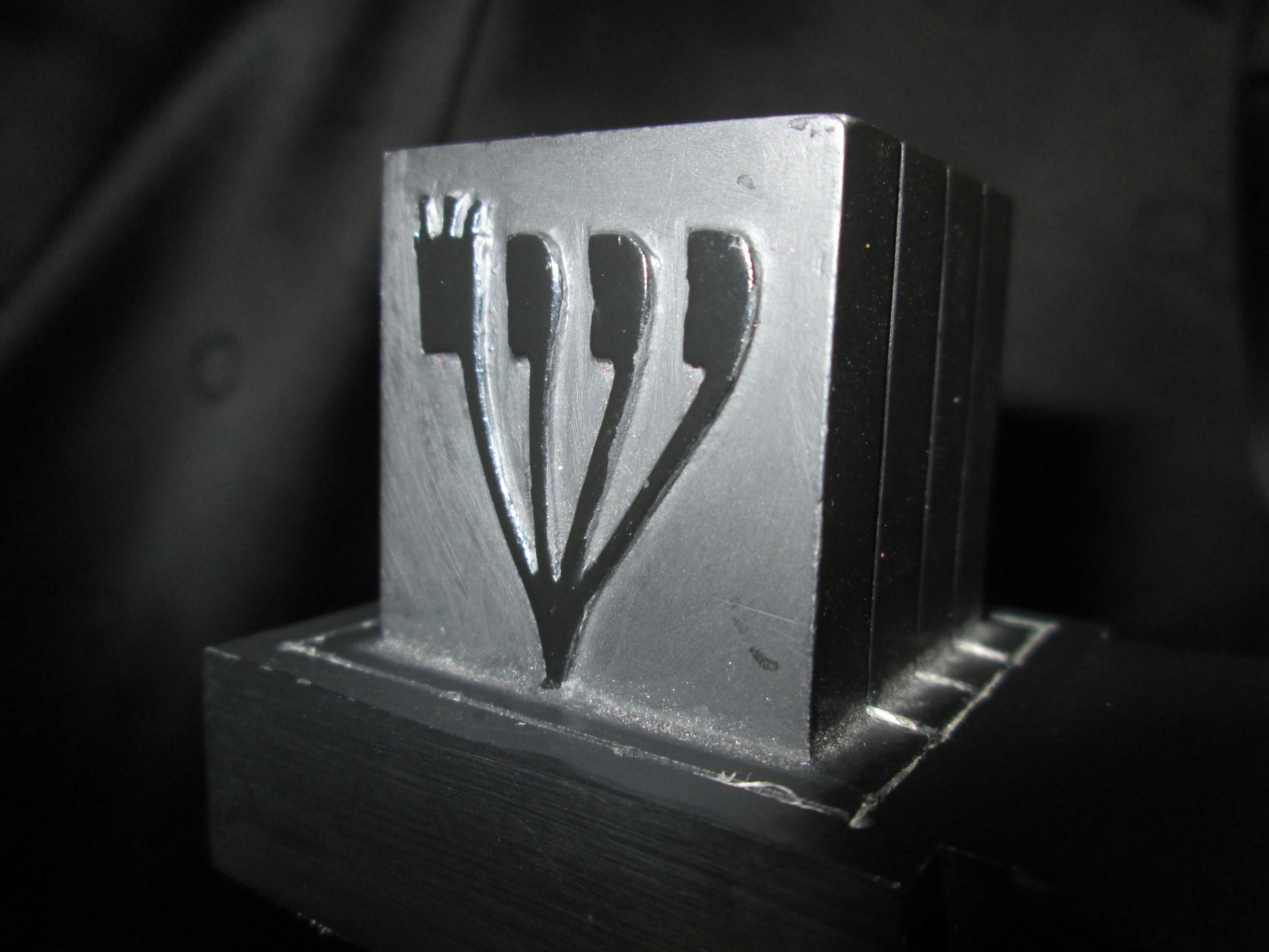 Tefillin shel Rosh (Head) with four branches. The Tefillin belong to Jewish Scholar and Ger Tzedek Yosef Yehudah Joseph J Sherman